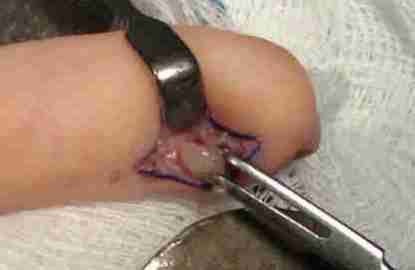 Closeup of a glomus tumor being surgically extracted from a female fingertip. The tumor is the translucent oblate spheroid in the center of the incision. Approximate horizontal dimension is 4 millimeters. Before surgery, the tumor resided close to the bone in the right ring finger and was not visible externally. The tumor was confirmed prior to surgery via MRI. Symptoms prior to surgery were present for approximately ten years, getting progressively more severe. When subjected to cold temperature, or local stimulation, the tumor caused intense pain that radiated up arm to the elbow.